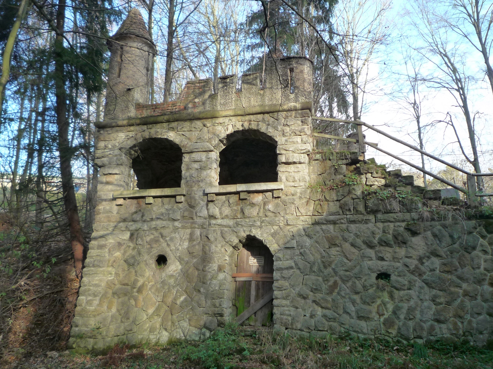 Meixmühle near Dresden